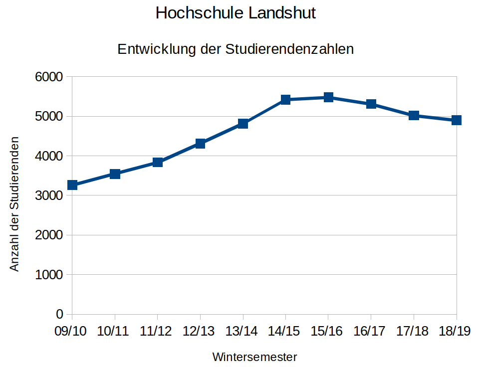 Developement of the number of students for a defined period